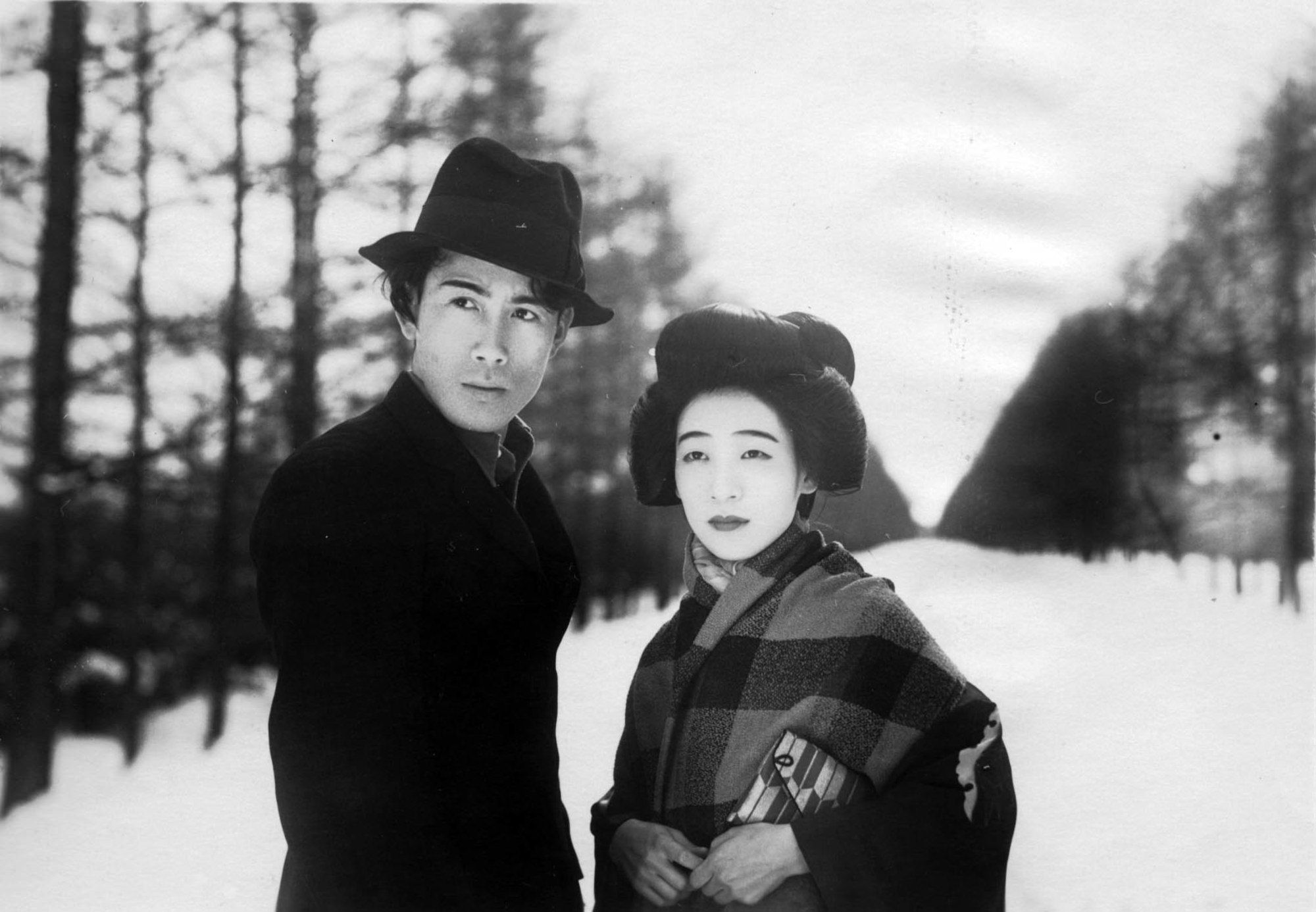 Shigeru Ogura and Akiko Chihaya in Nakinureta haru no onna yo (1933)